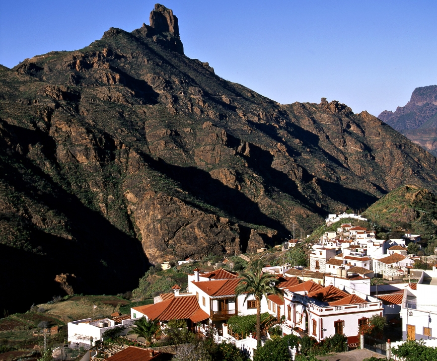 Roque Bentayga, Gran Canaria, Spain. Seen from Tejeda, looking N-W.